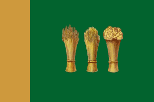 Flag of Penza, Russia (according to the 21 Sept 2004 Act of the Penza City Duma on the Flag of Penza (in Russian))